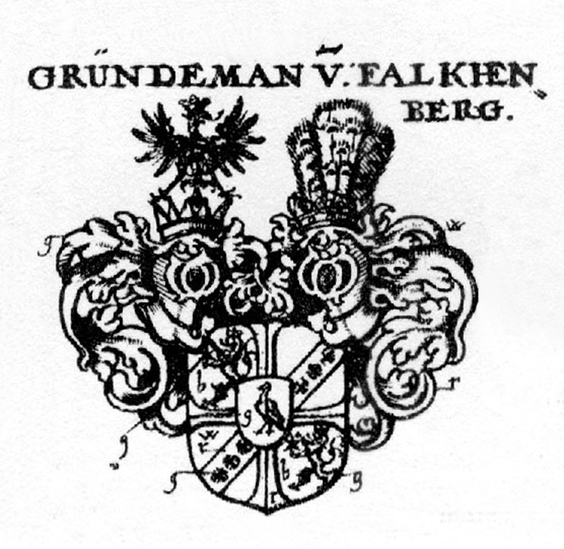 Coats of Arms of Grundemann von Falkenberg